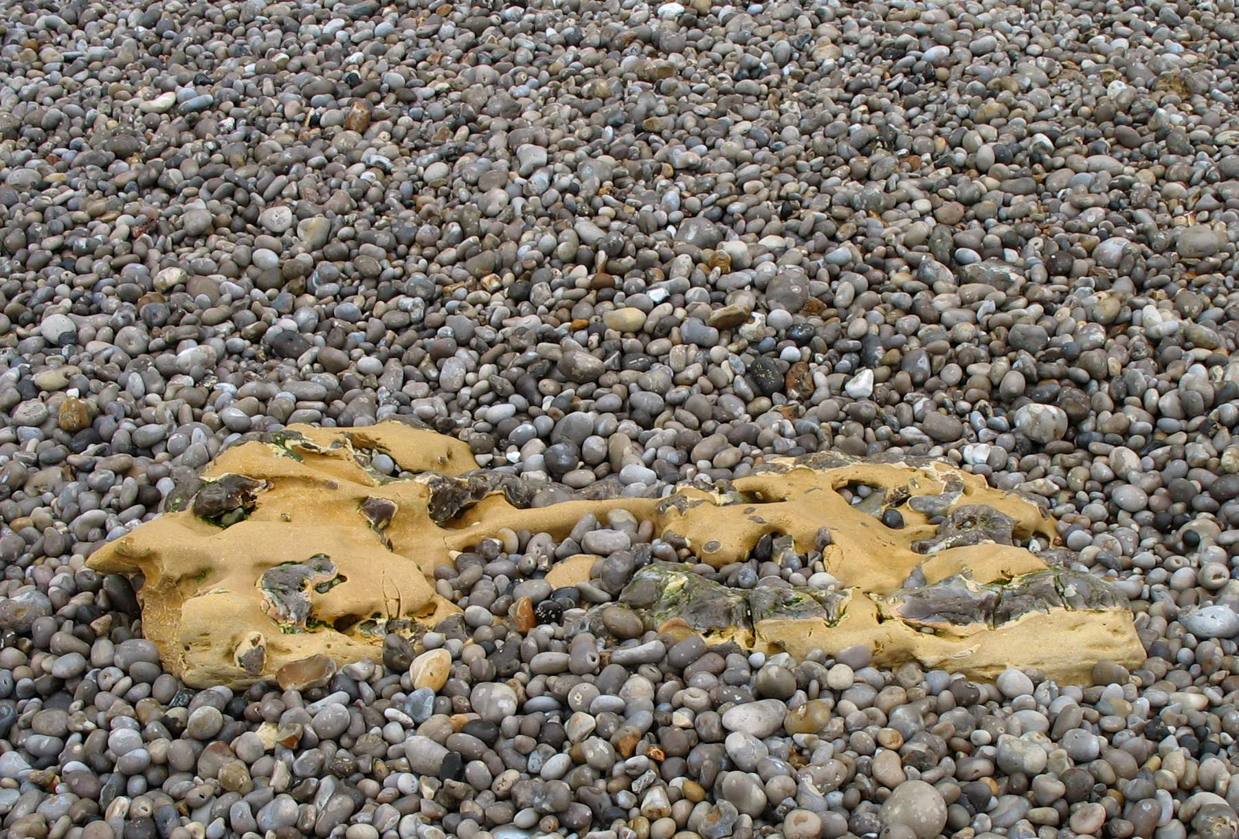 Limestone cliff remains and pebbles on Étretat shore